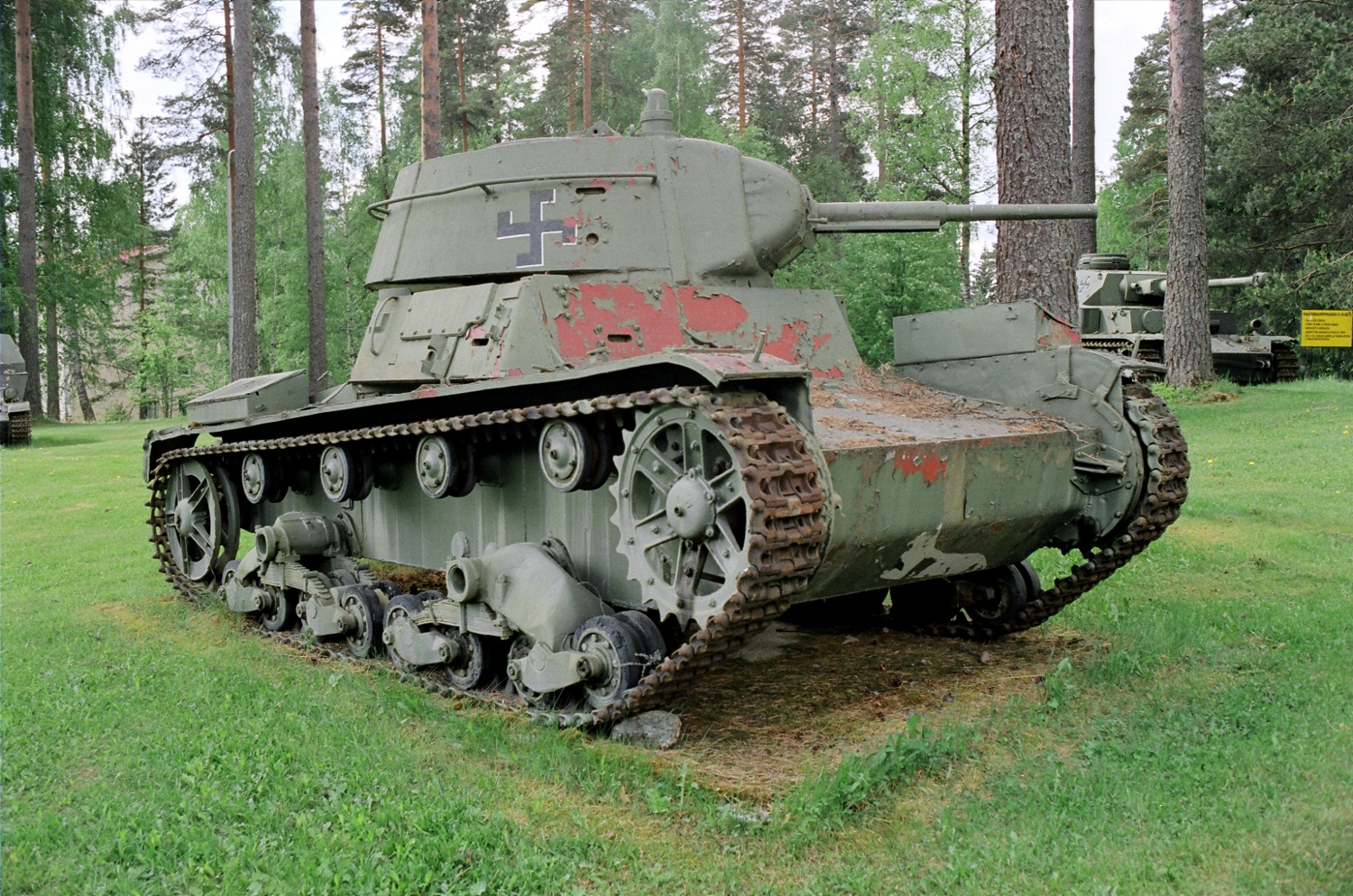 A T-26 tank in the Karkialampi barracks area in Mikkeli, Finland.